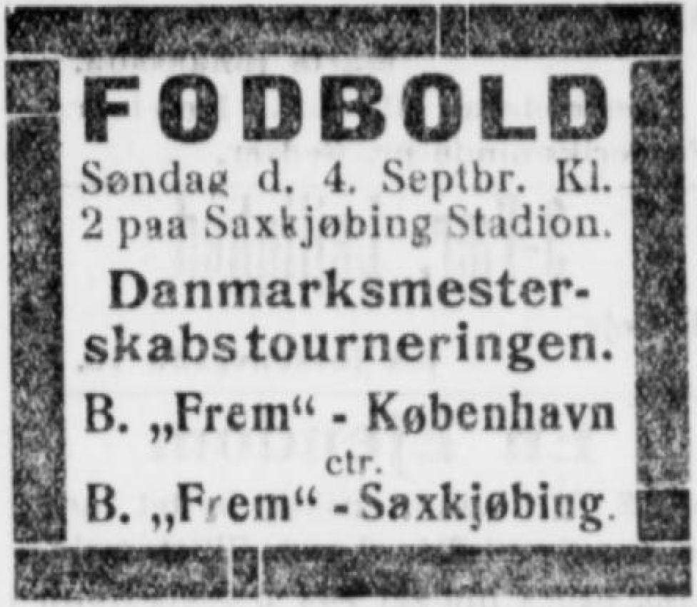 Advertisement for the an association football match in the 1927–28 Danmarksmesterskabsturneringen - Fodbold ; Søndag d. 4. Septbr. Kl. 2 paa Saxkjøbing Stadion. Danmarksmesterskabstourneringen. B. „Frem“ - København ctr. B. „Frem“ - Saxkjøbing.